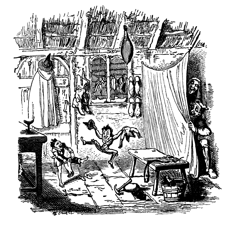 An illustration for the Brother's Grimm story "The Elves and the Shoemaker"